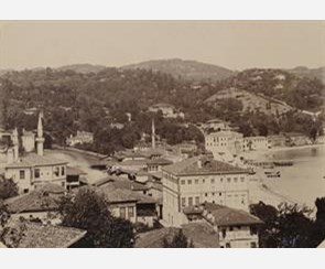 Rizunda, 1890s